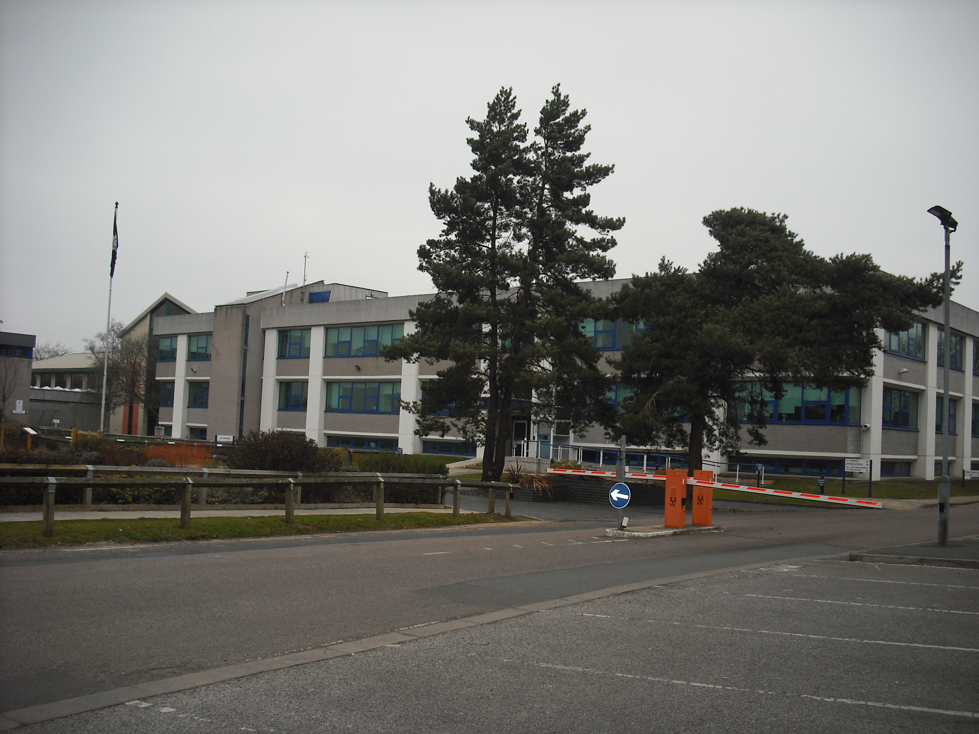 Photo of the headquarters of Cambridgeshire Constabulary, Huntingdon. Showing the main building, as seen from the entrance.